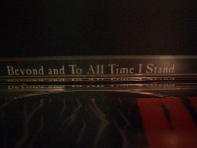 Blacksails msg